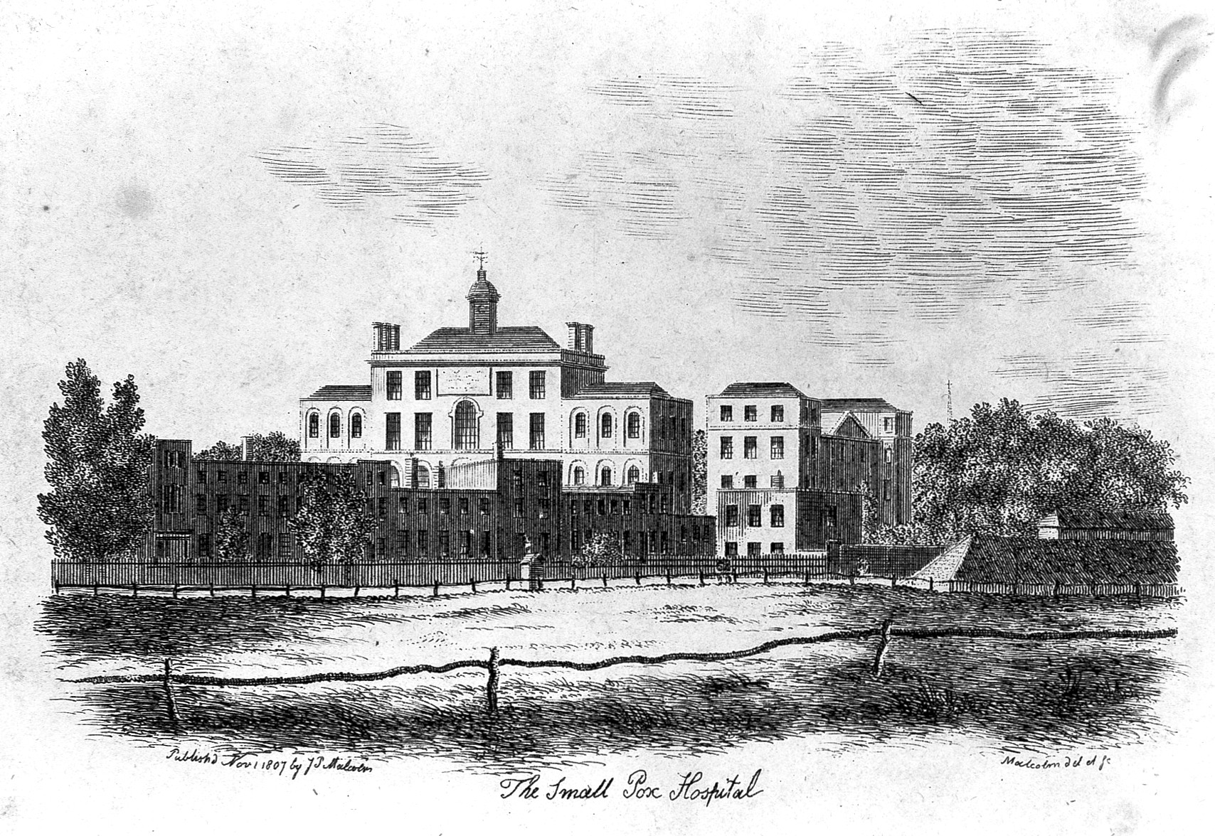 The Smallpox Hospital, St Pancras, London. Etching by J. P. Malcolm after himself, 1807. Iconographic Collections Keywords: Smallpox and Inoculation Hospital (St Pancras); James Peller Malcolm